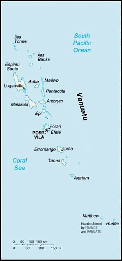 Map of Vanuatu